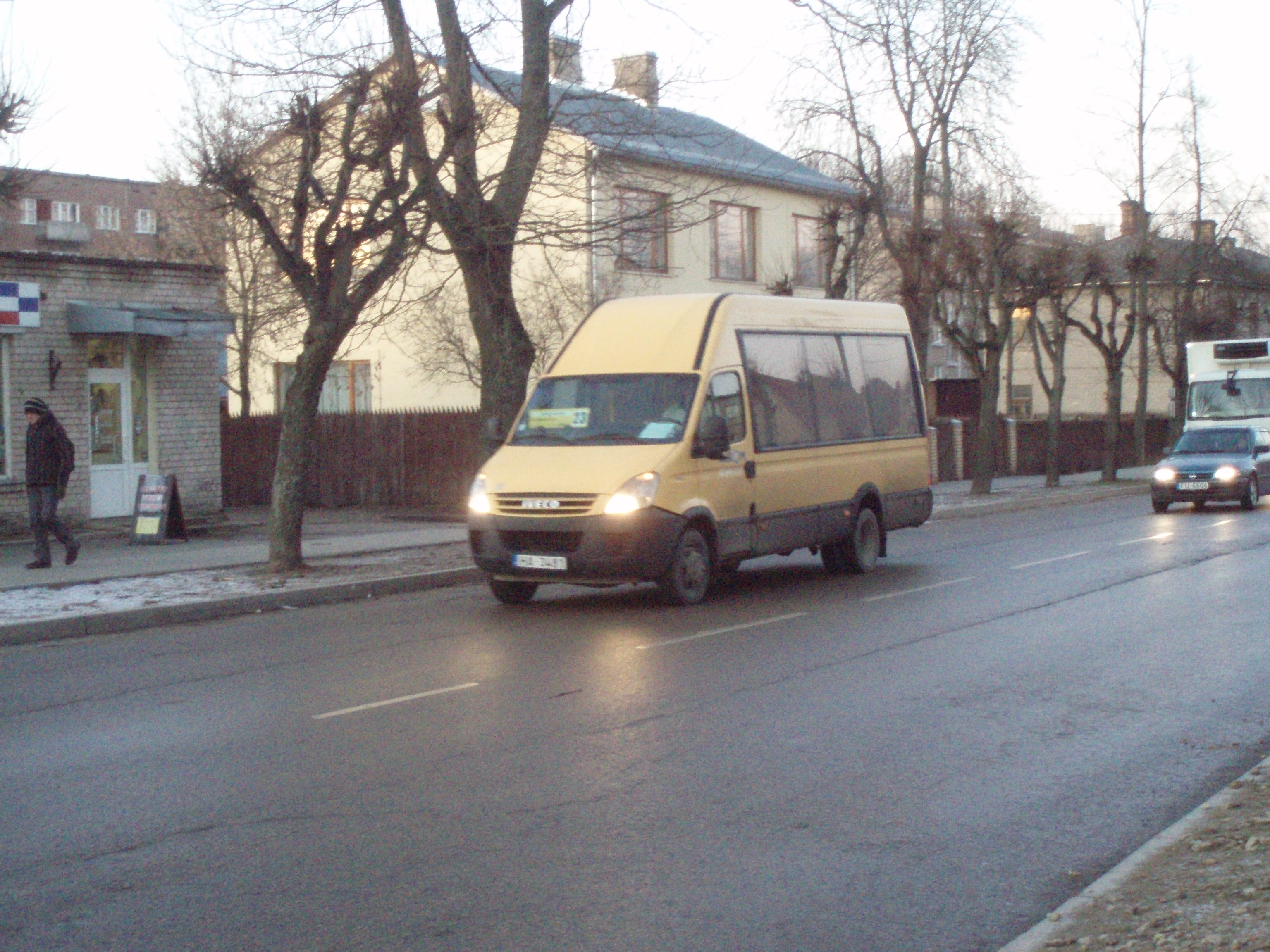 Iveco Daily Mk4 bus, line 23, on Dārzu Street in Rēzekne, Latvia.